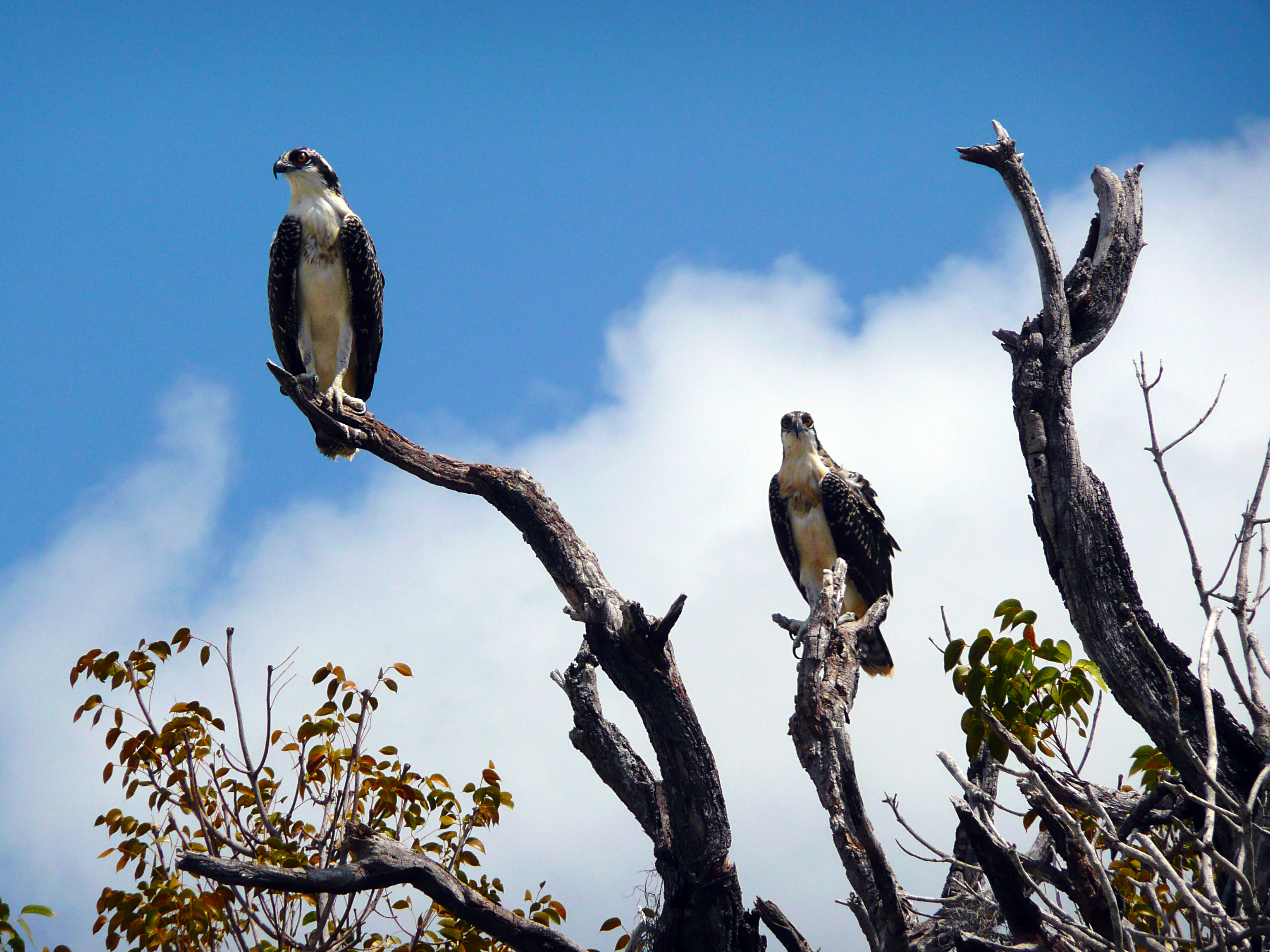 Everglades National Park (United States of America)